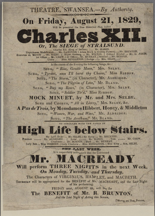 Charles XII High Life below Stairs Mr. Macready